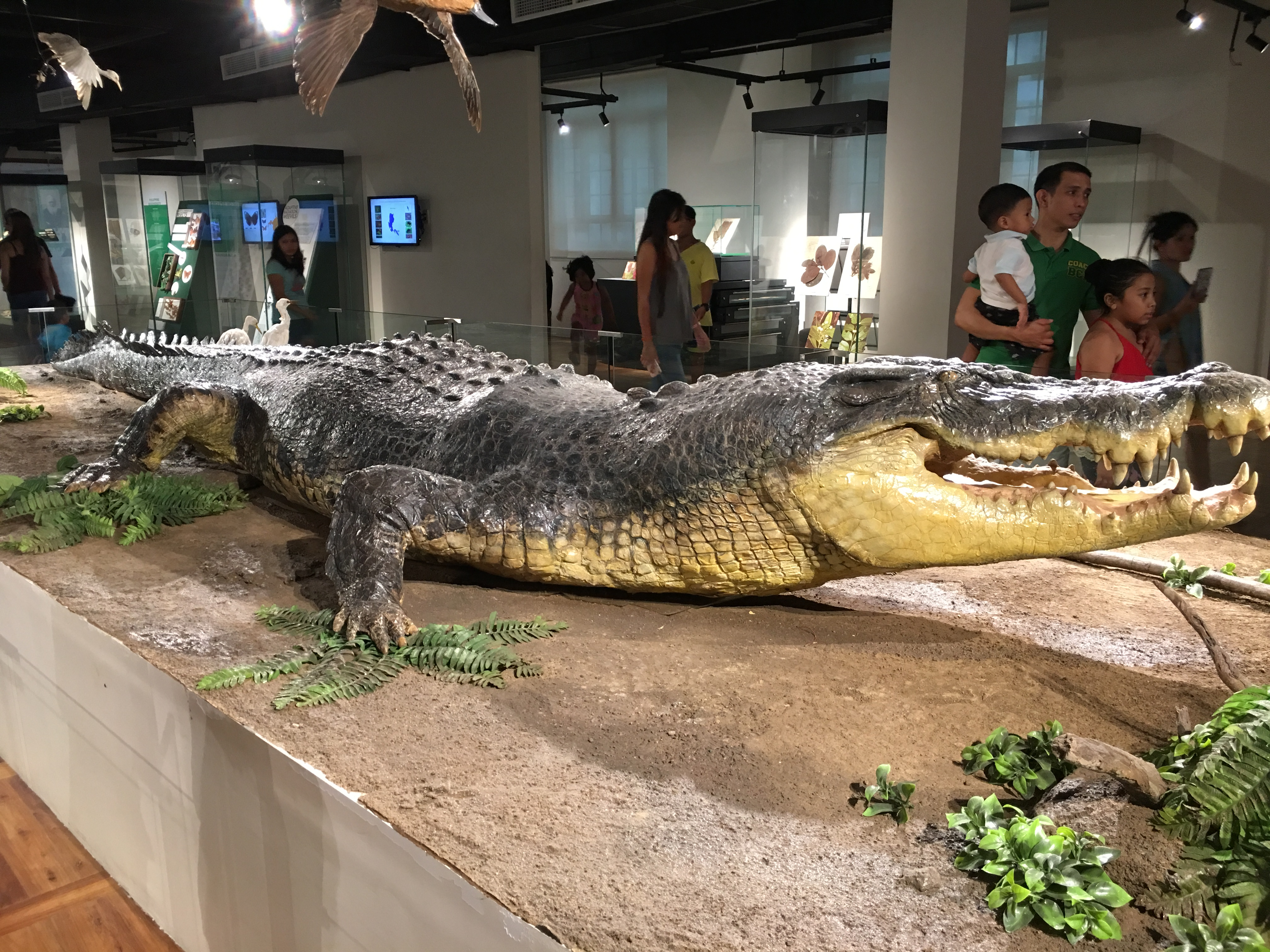 Preserved skin of Lolong at Philippine National Museum